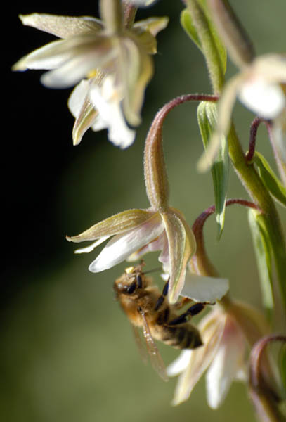 Apis mellifera polinated Epipactis palustris